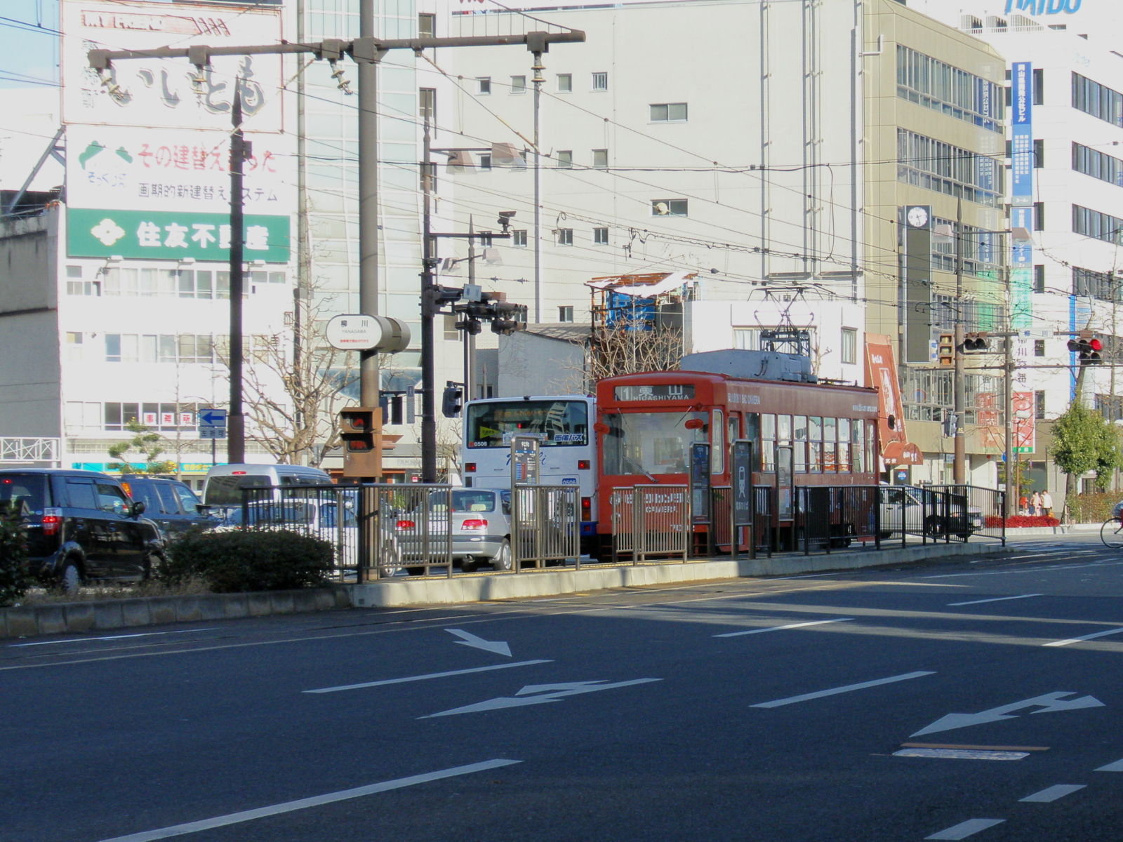 Okayama Electric Tramway Yanagawa Station.